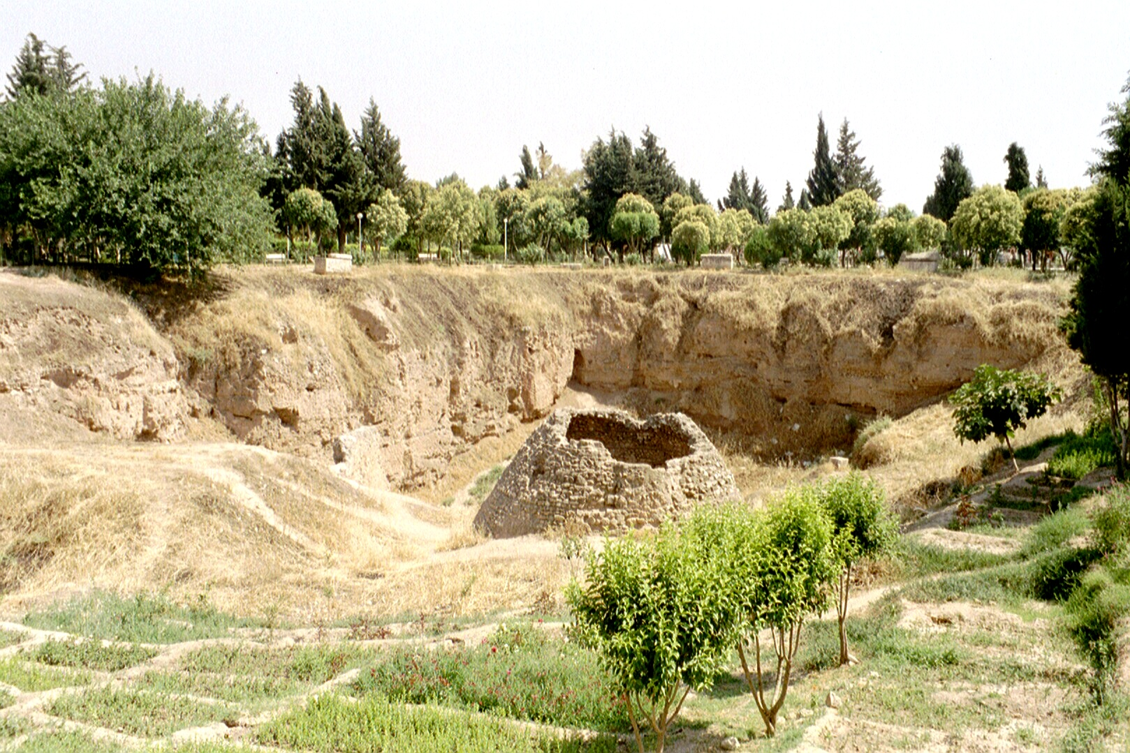 Picture taken *at* the top of the Citadel in Hama, Syria. Picture taken by me in June, 2001, with an automatic Olympus mju:zoom140 camera.